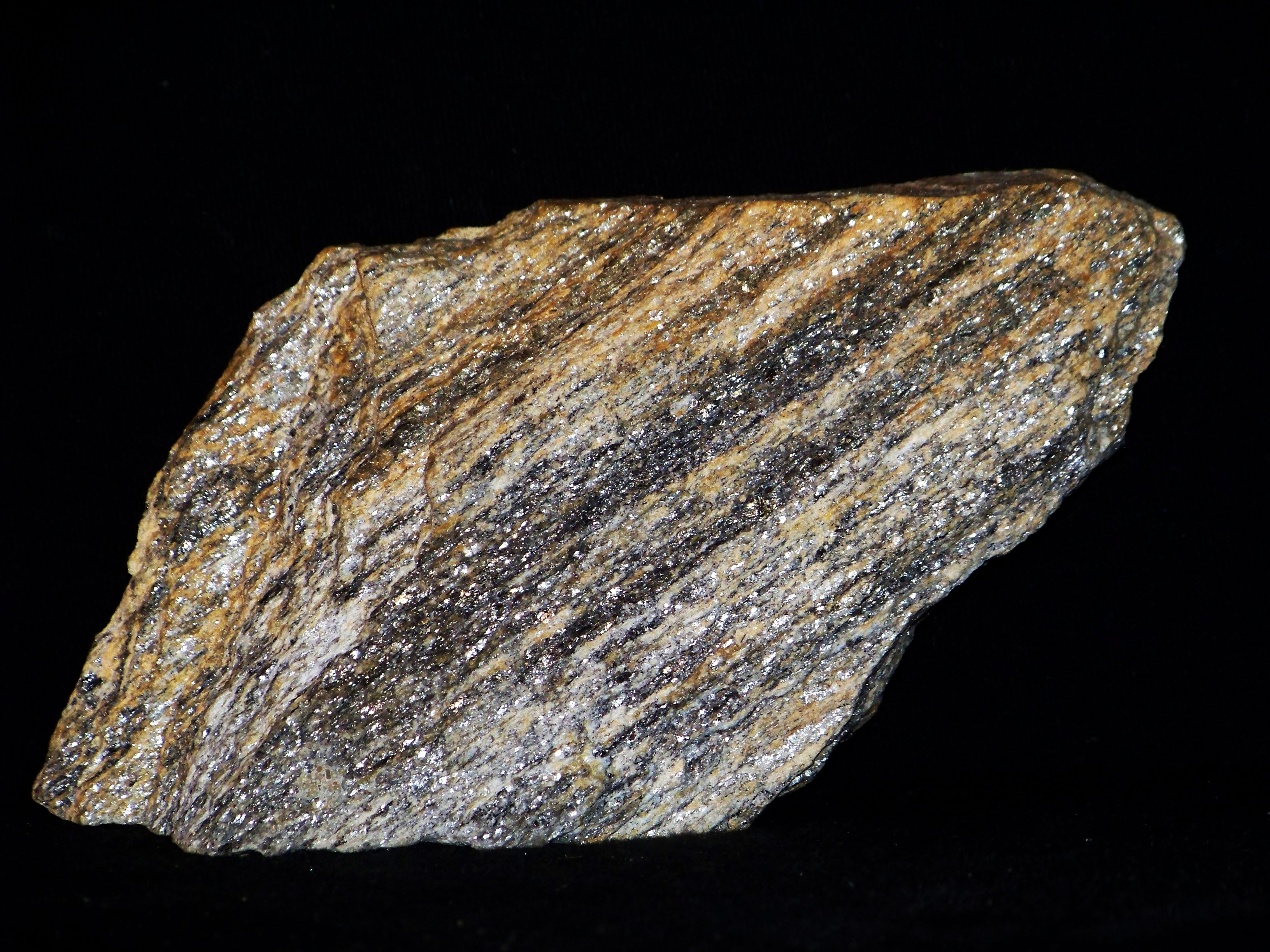 Mylonite from an unknown location.